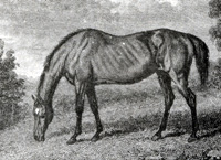 Picture of the racehorse Parasol